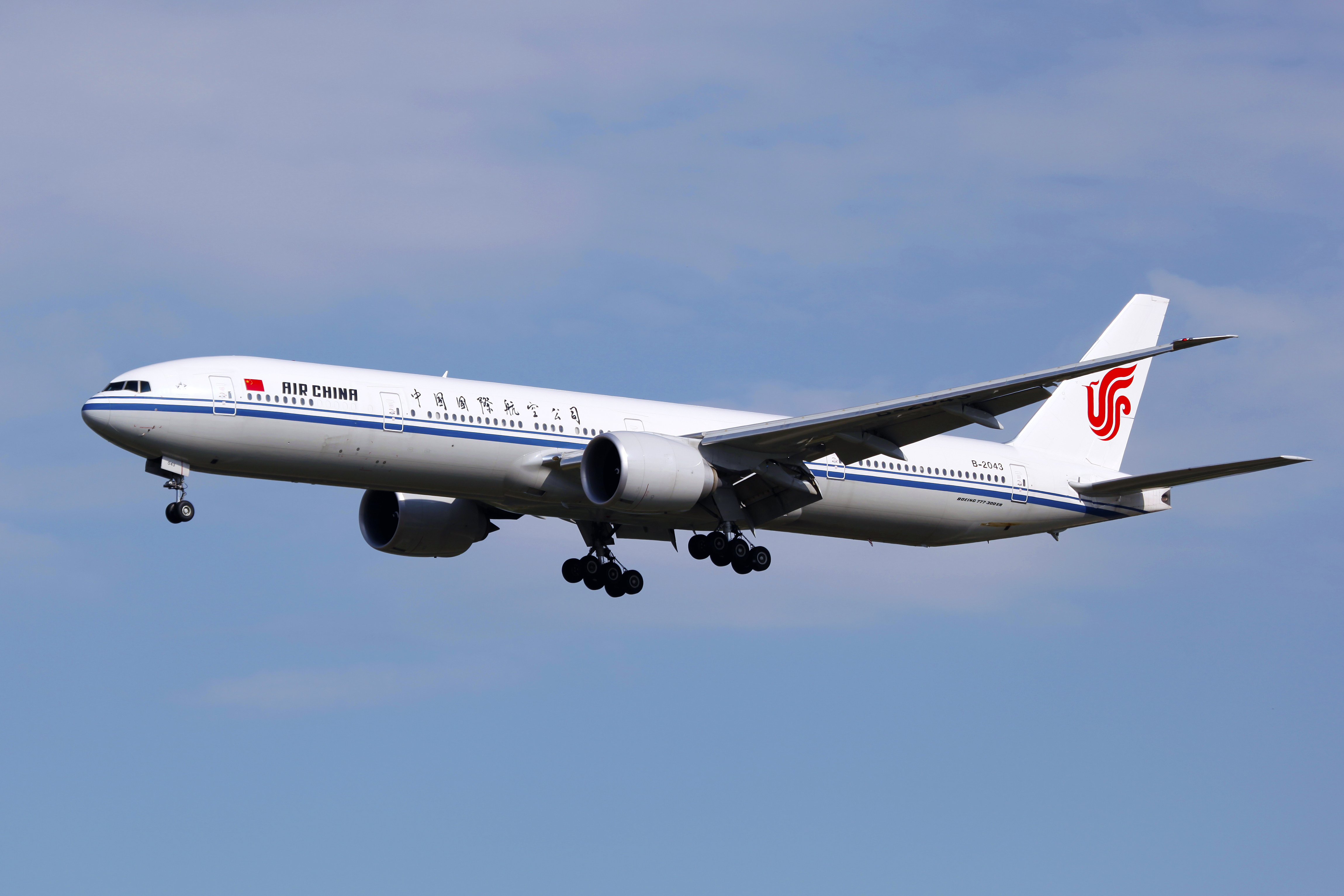 B-2043 | Air China | Boeing 777-39L(ER) | Beijing Capital International Airport [PEK]